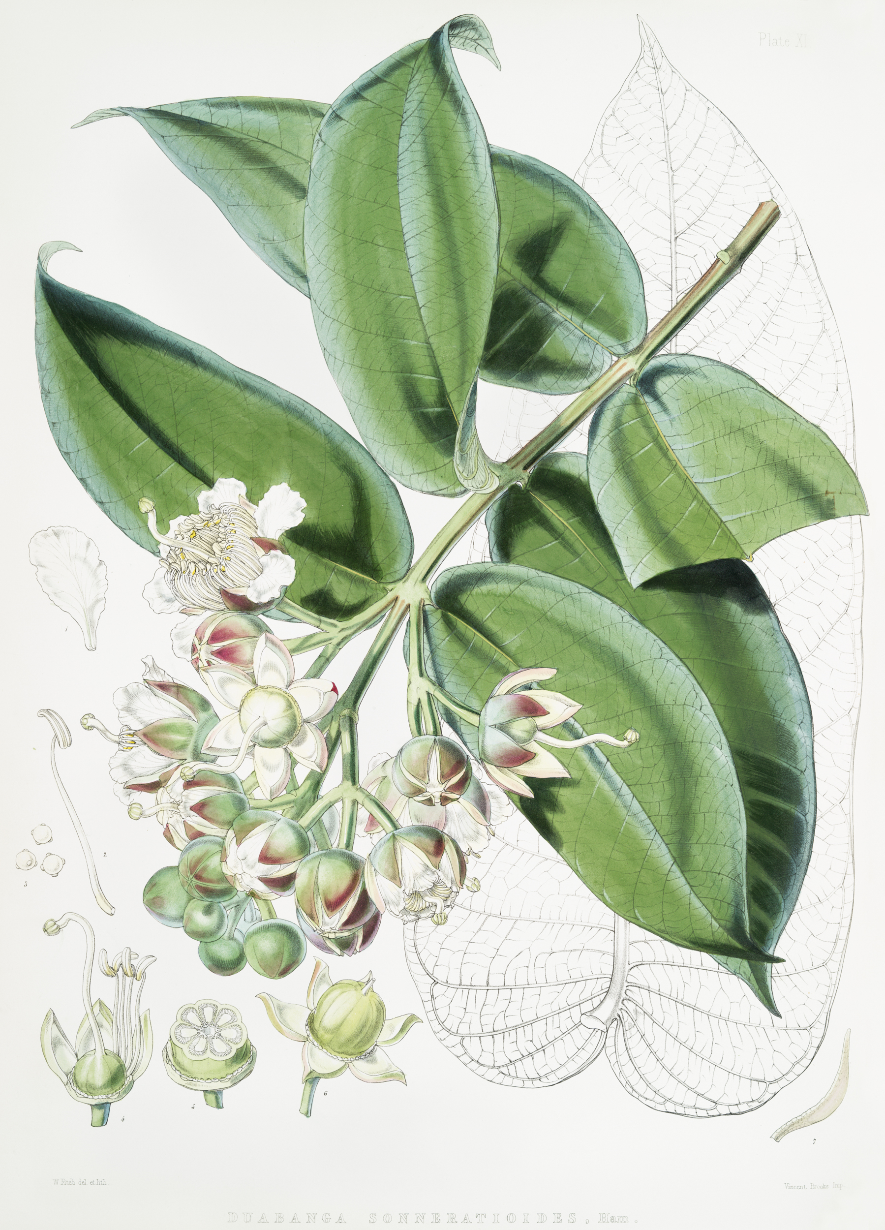 Duabanga Sonneratioides (syn. Duabanga grandiflora) from Illustrations of Himalayan plants (1855) by W. H. (Walter Hood) Fitch (1817-1892).